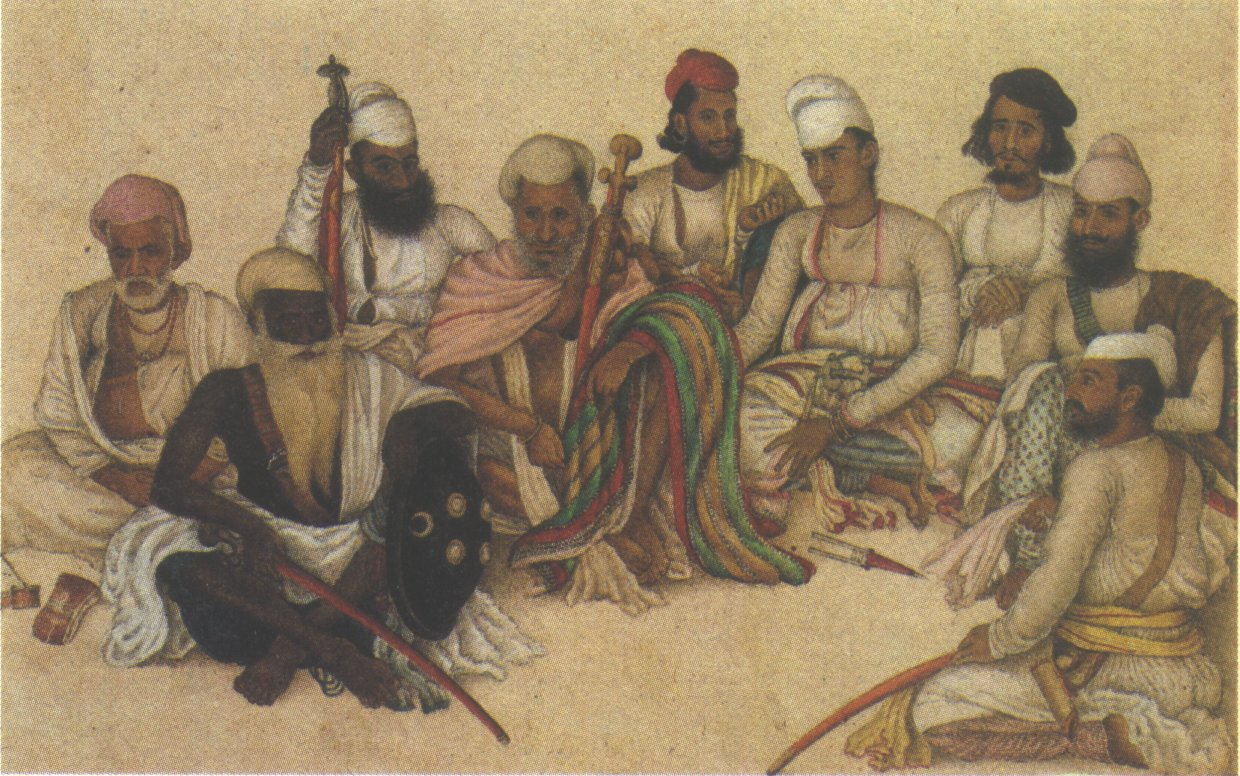 Nine Jat-Sikh courtiers and servants of the Raja of Patiala, Delhi School, c.1817